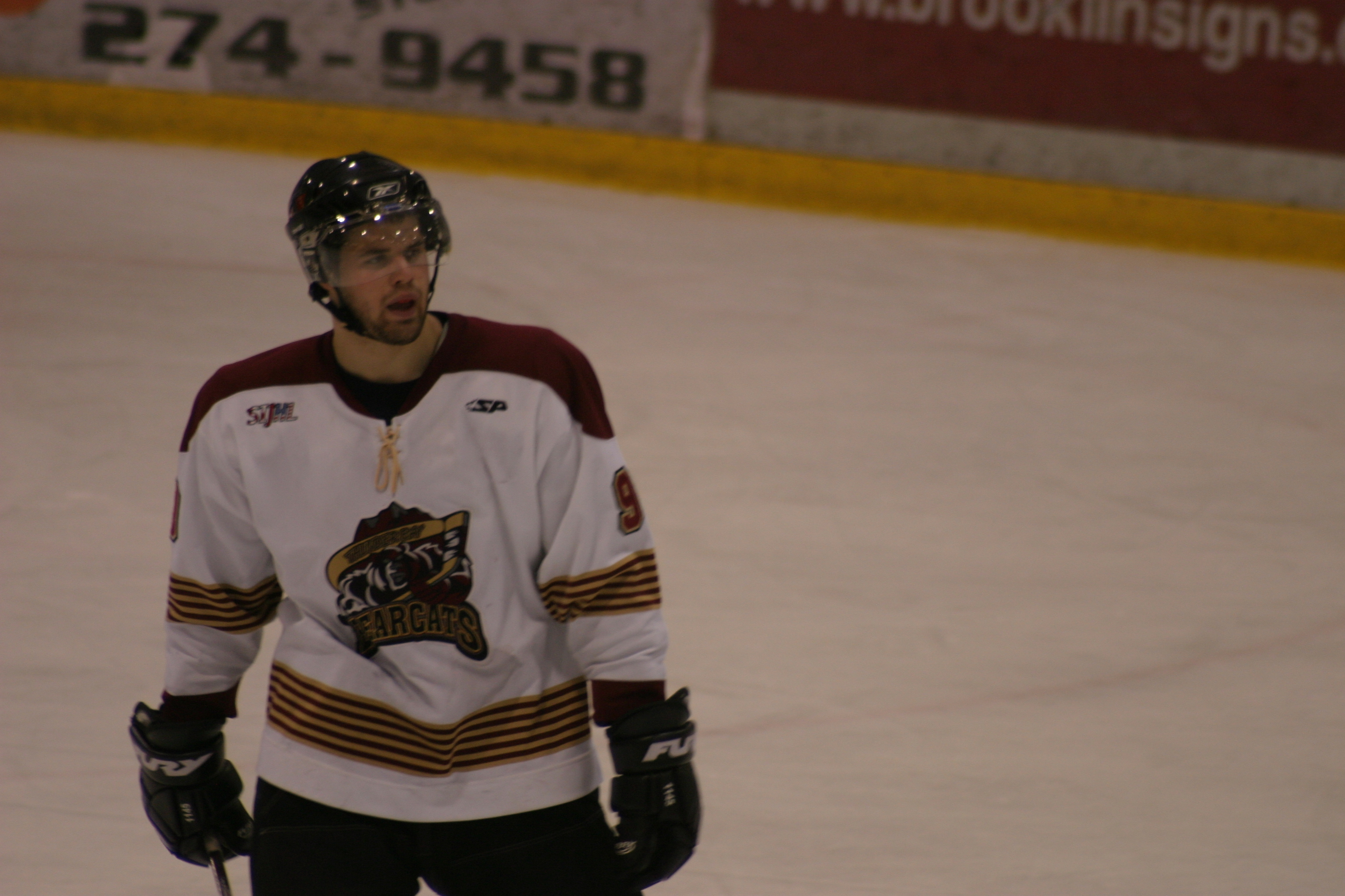 Thunder Bay Bearcats forward #90 Steve Natywary procrastinates while heading off ice late during a game at Fort Frances against the Jr. Sabres on 19 Jan. 2008.